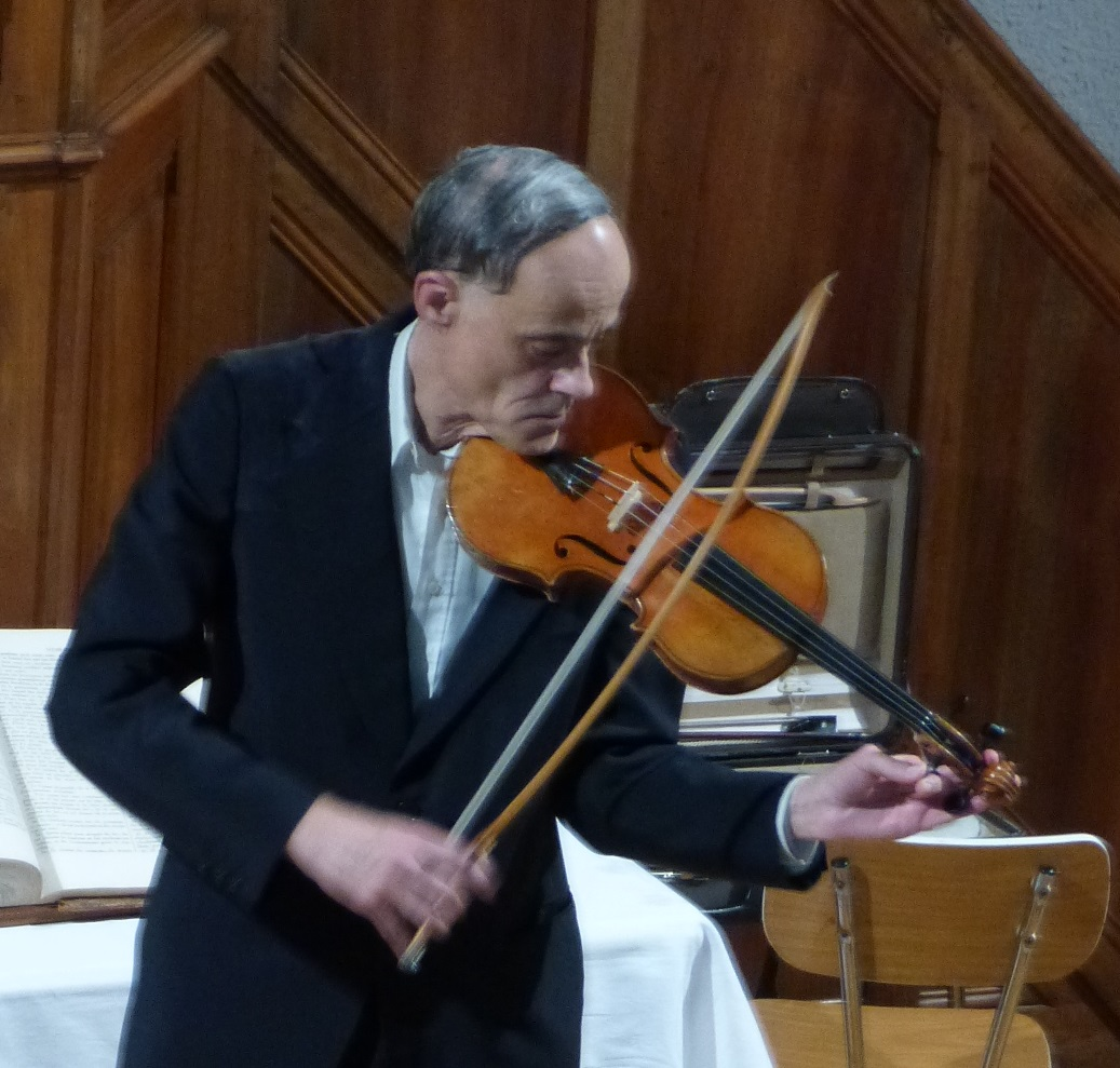 Philippe Borer in concert, Romans